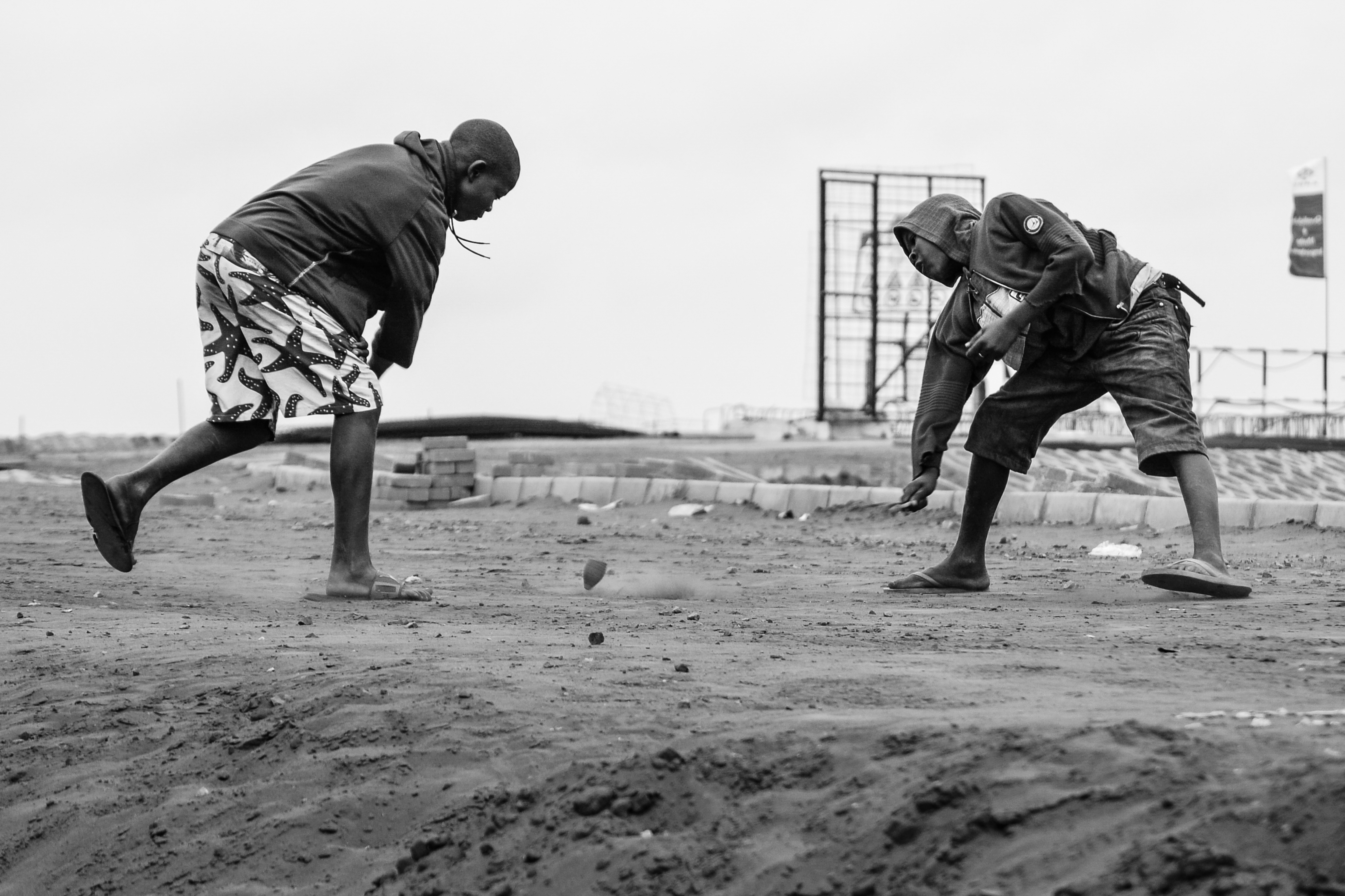 Xindire is a traditional African game that we use to play in Mozambique before we had access to modern games. This is an image with the theme "Play" from: Mozambique